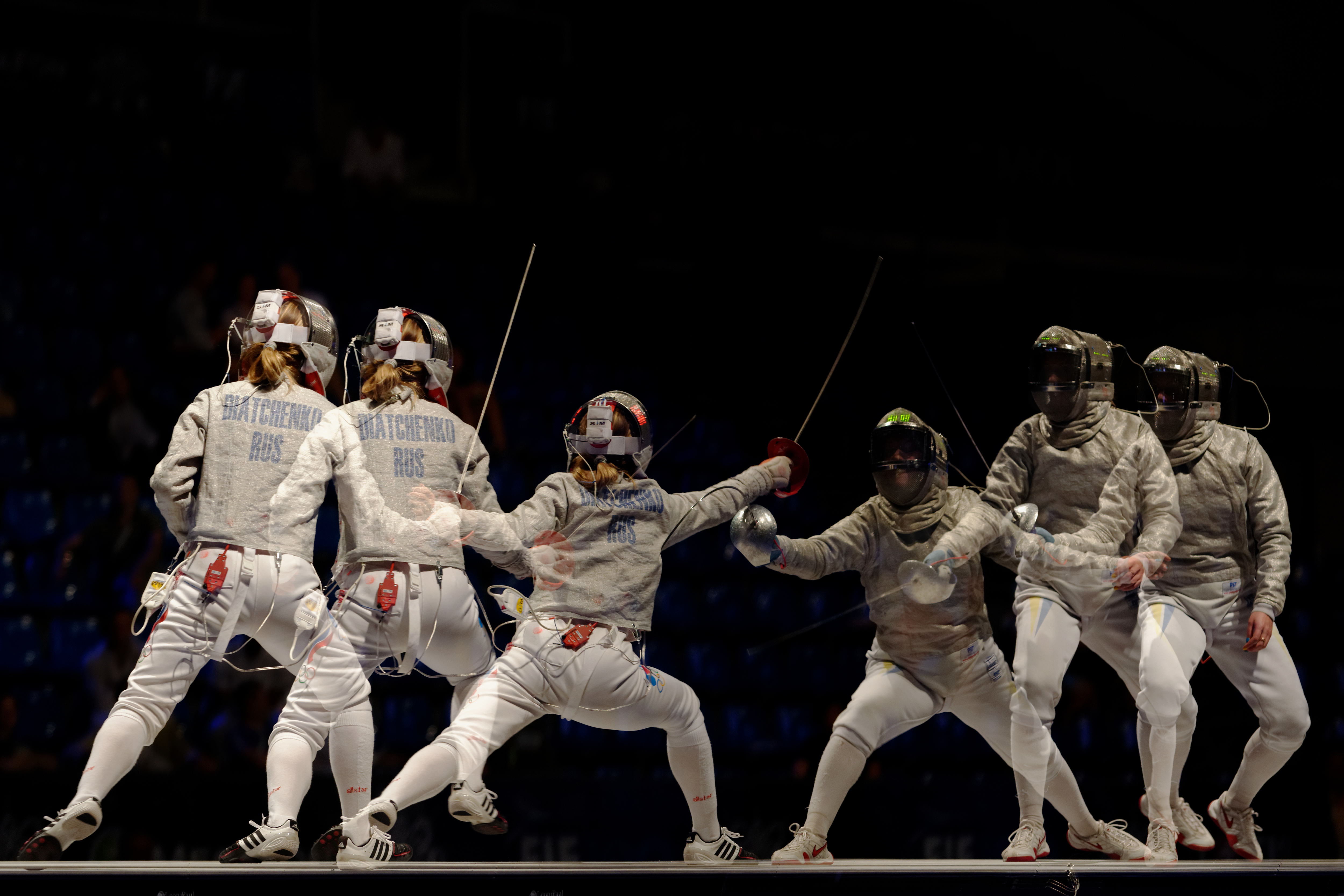 Olena Voronina of Ukraine (R) scores a hit against Russia's Yekaterina Dyachenko (L) in the women's team sabre final of the 2013 World Fencing Championships 2013 at Syma Hall in Budapest, 12 August 2013.